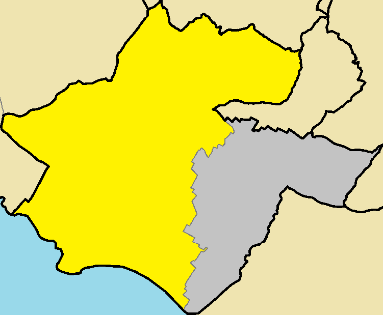 Geroskipou (quarter) in Geroskipou.